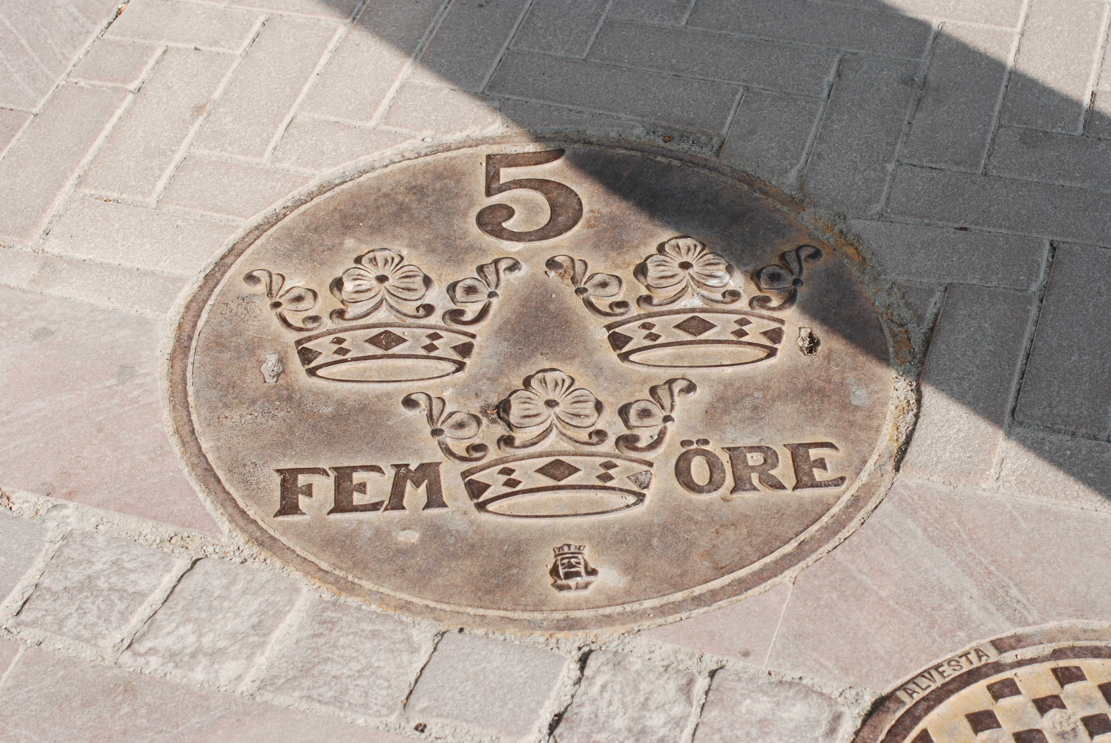 Oversized Swedish bronze coin, 5 öre, as a decoration, Högdalen Shopping Centre in Stockholm